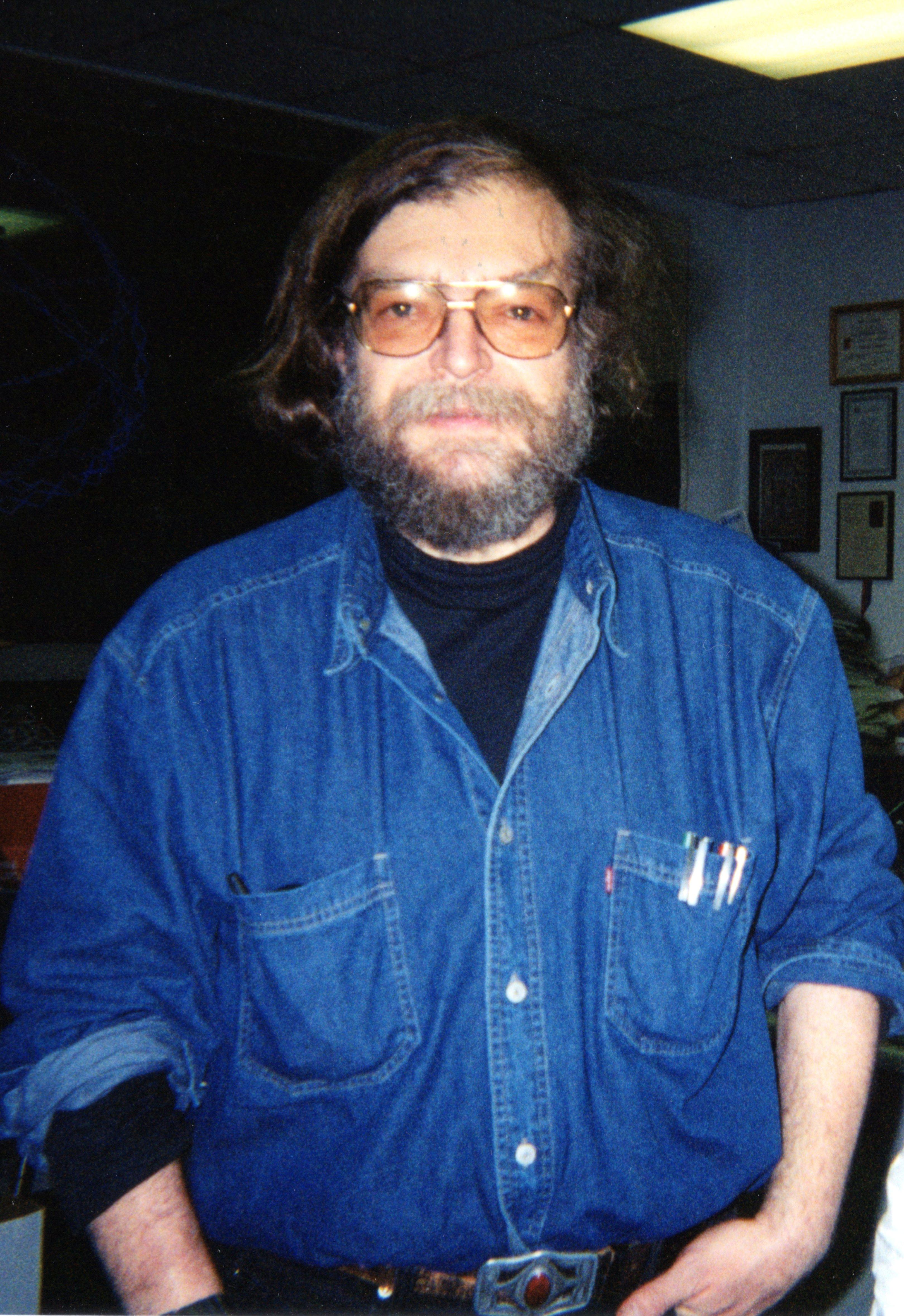 Nadrian Seeman, the founder of the field of DNA nanotechnology, in 2002.